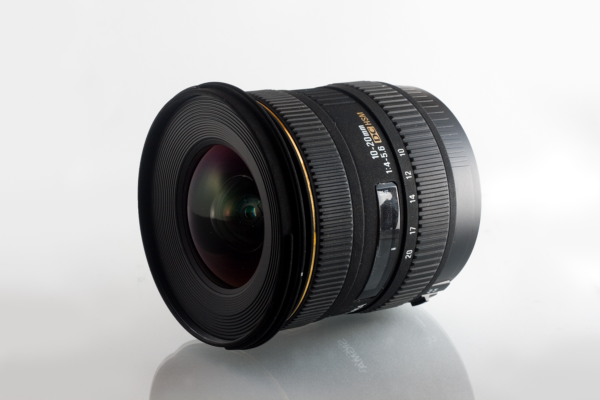 Sigma 10-20mm F4-5.6 DC EX HSM Lens (Canon Mount)